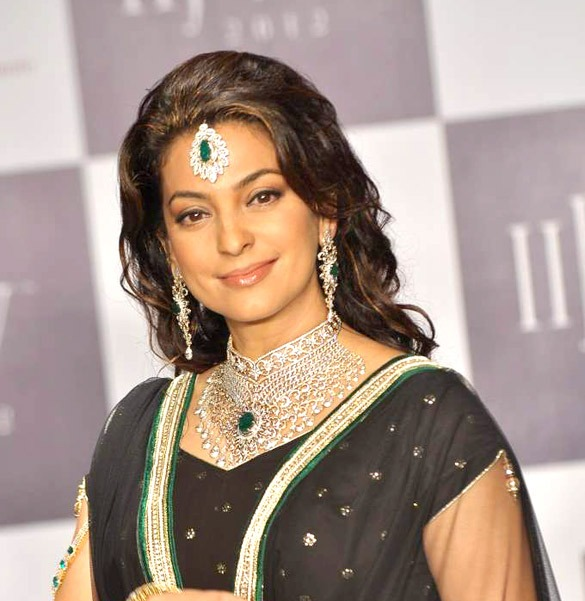 Juhi Chawla at the Indian International Jewellery Week 2012. Chawla presented creations by Kays Jewels on the third day of the event that took place at Hotel Grand Hyatt, Mumbai.